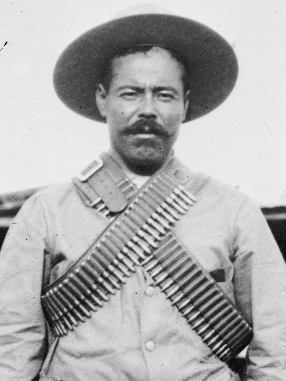 Francisco "Pancho" Villa (1877–1923), Mexican revolutionary general, wearing bandoliers in front of an insurgent camp.